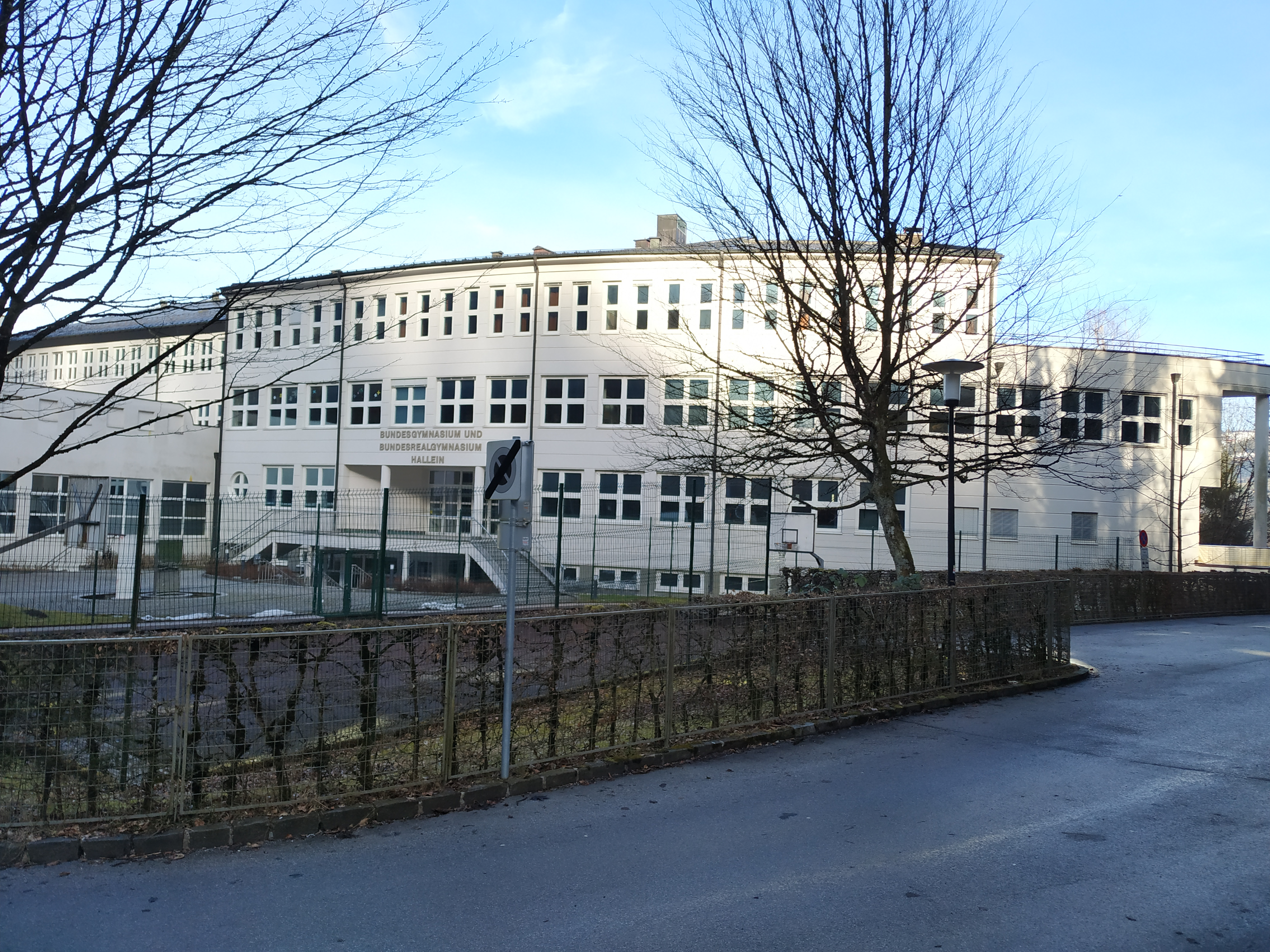 Bundesgymnasium und Bundesrealgymnasium Hallein, secondary school in Austria